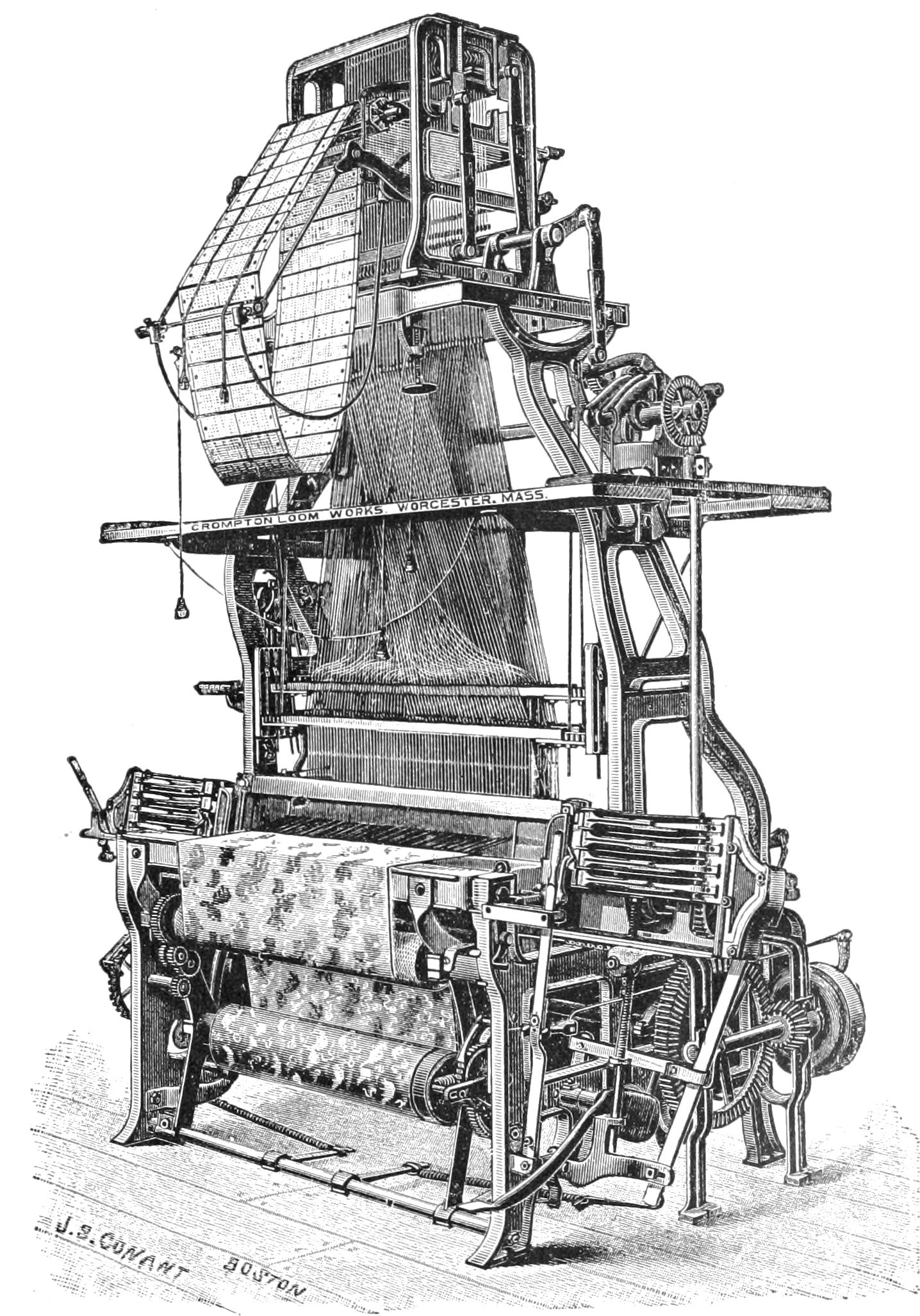 Carpet loom with Jacquard attachment